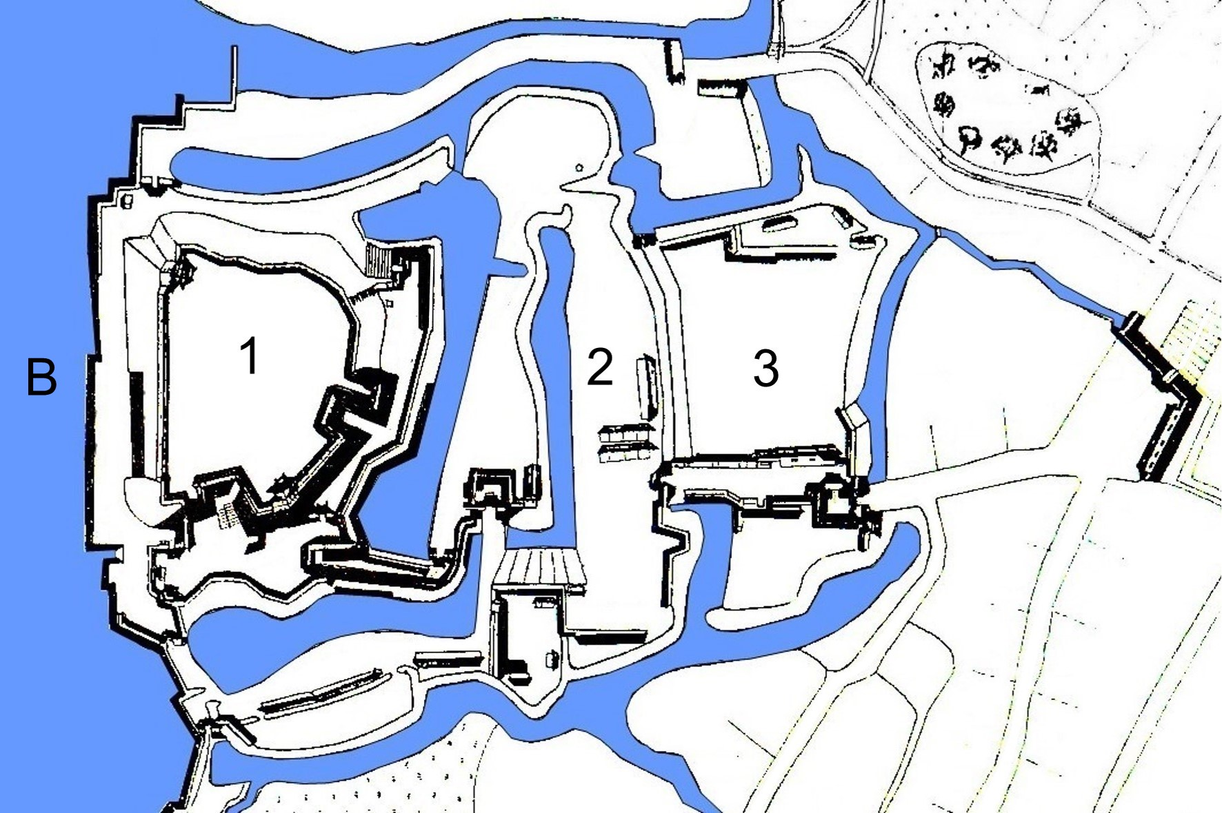 Layout of former Kariya castle